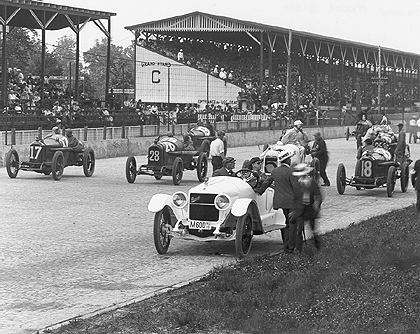 This is the starting grid of the 1916 race.